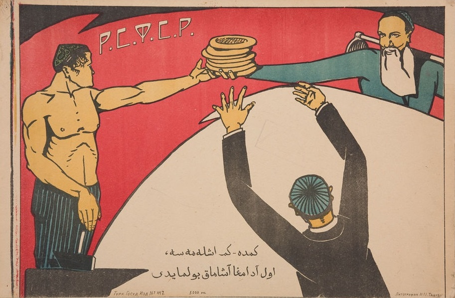 “Who doesn’t work doesn’t eat” – Uzbek, Tashkent, 1920 (Mardjani Foundation)